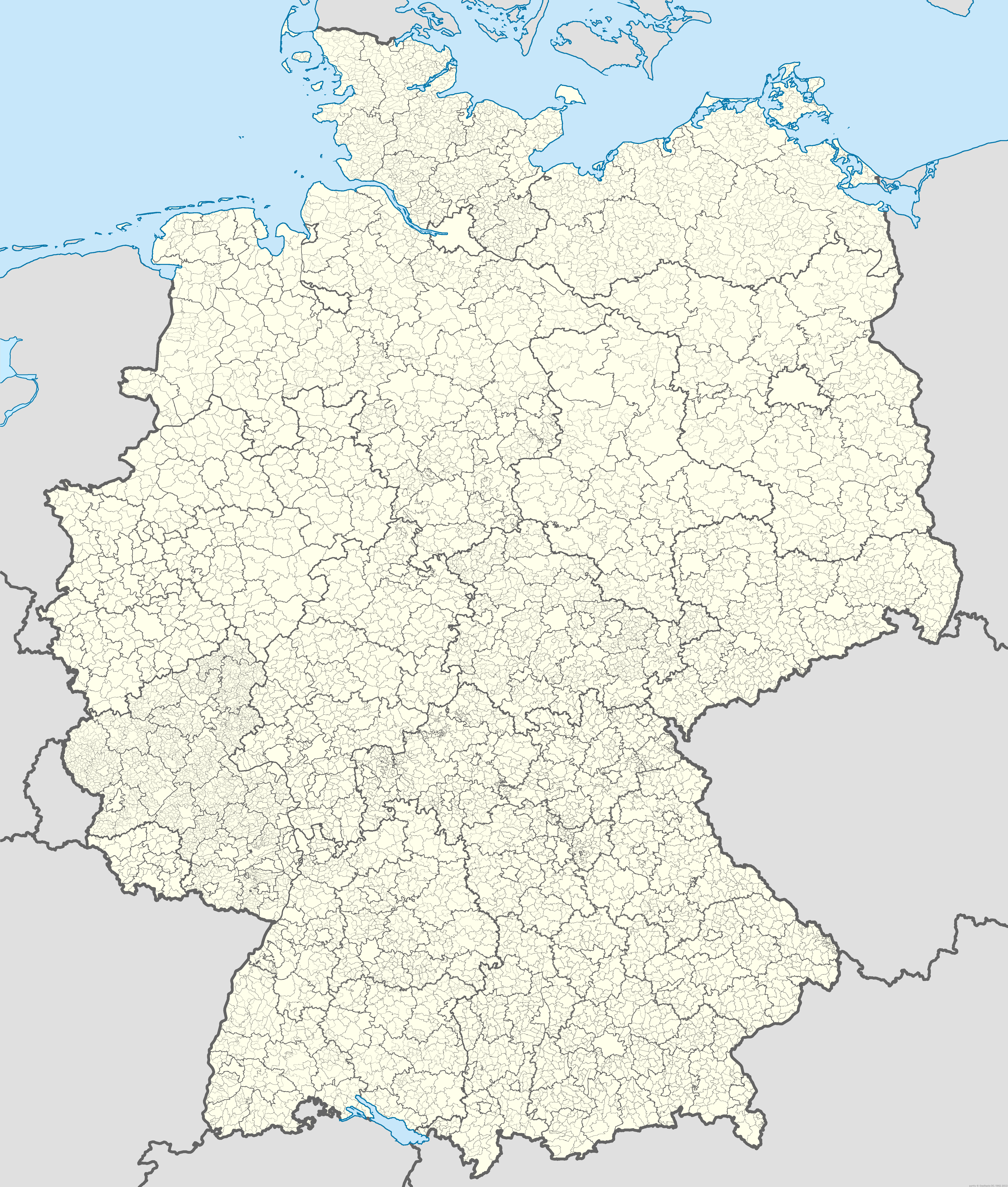 Location map of Germany with states, districts, municipalities af of Jan 1st, 2013. Equirectangular projection, N/S stretching 150 %. Geographic limits of the map: N: 55.1° N S: 47.2° N W: 5.5° E E: 15.5° E